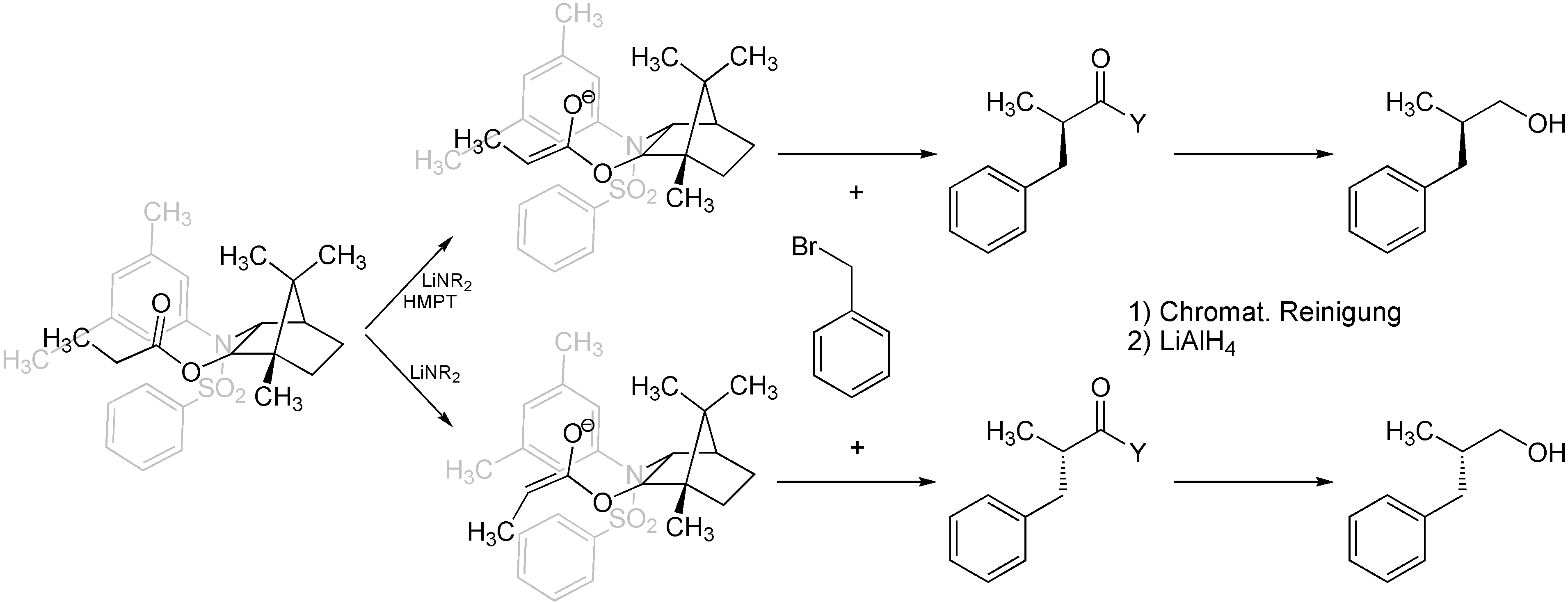 mechanism of the Helmchen synthesis.